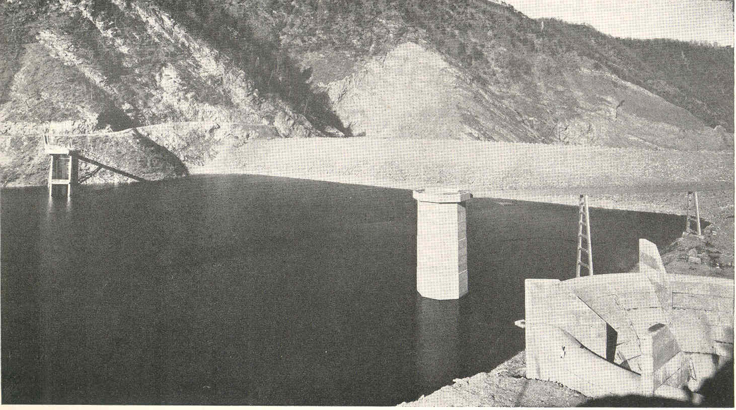 Upstream view of TVA's Watauga Dam, which impounds the Watauga River in Carter County, Tennessee, USA. The dam's "morning glory" spillway opening is visible in the foreground on the right.